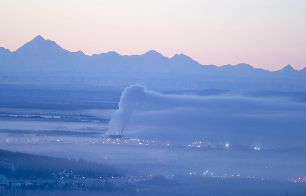 Ice fog over Fairbanks, Alaska in winter 2005. Temperature approximately minus 30F. Joseph N. Hall Note the mirage at the base of the Alaska Range